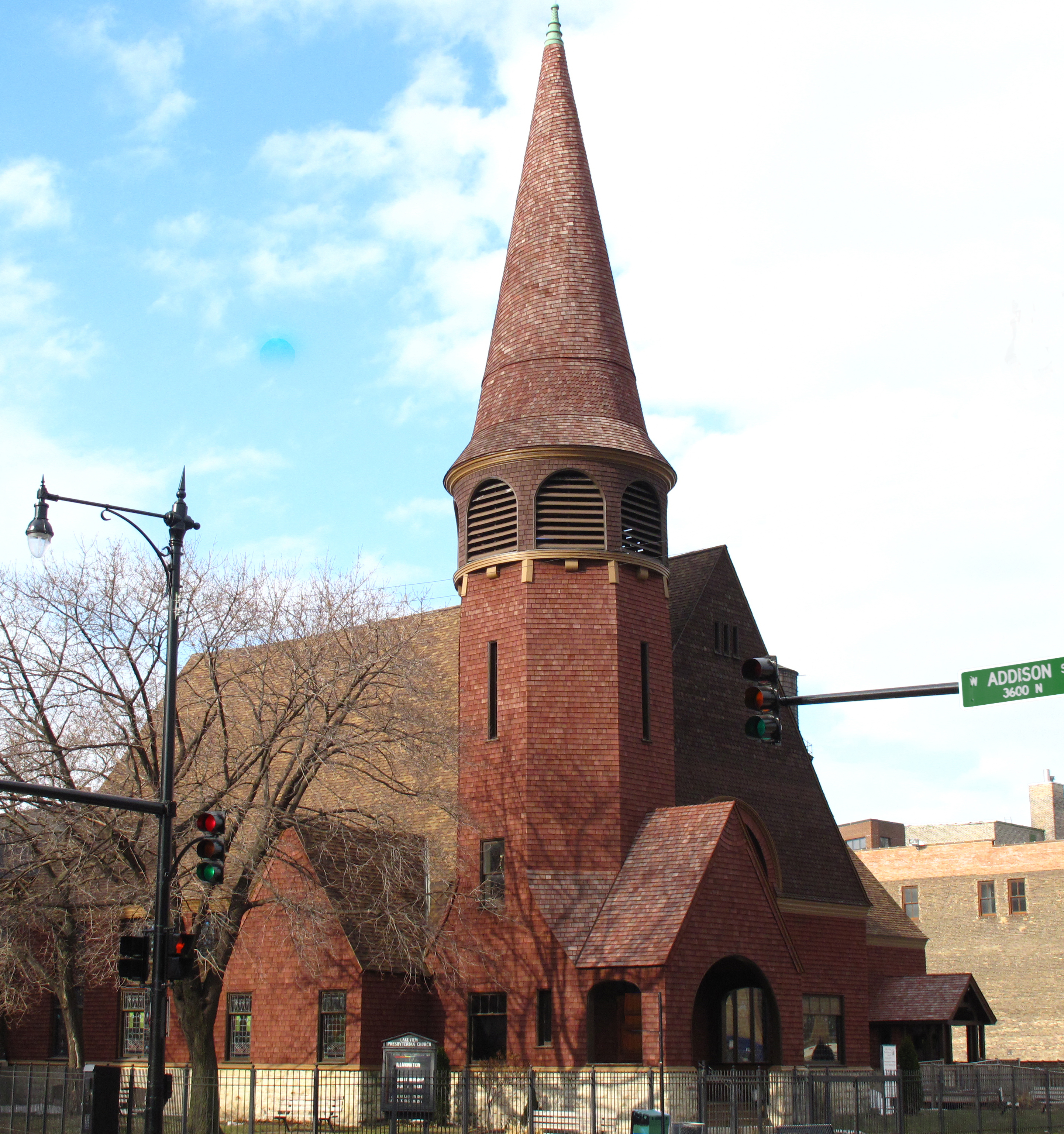 Lake View Presbyterian Church, 716 West Addison Street, Chicago, IL 60613. See its history at [1] John Welbourne Root was the architect. Completed in 1888